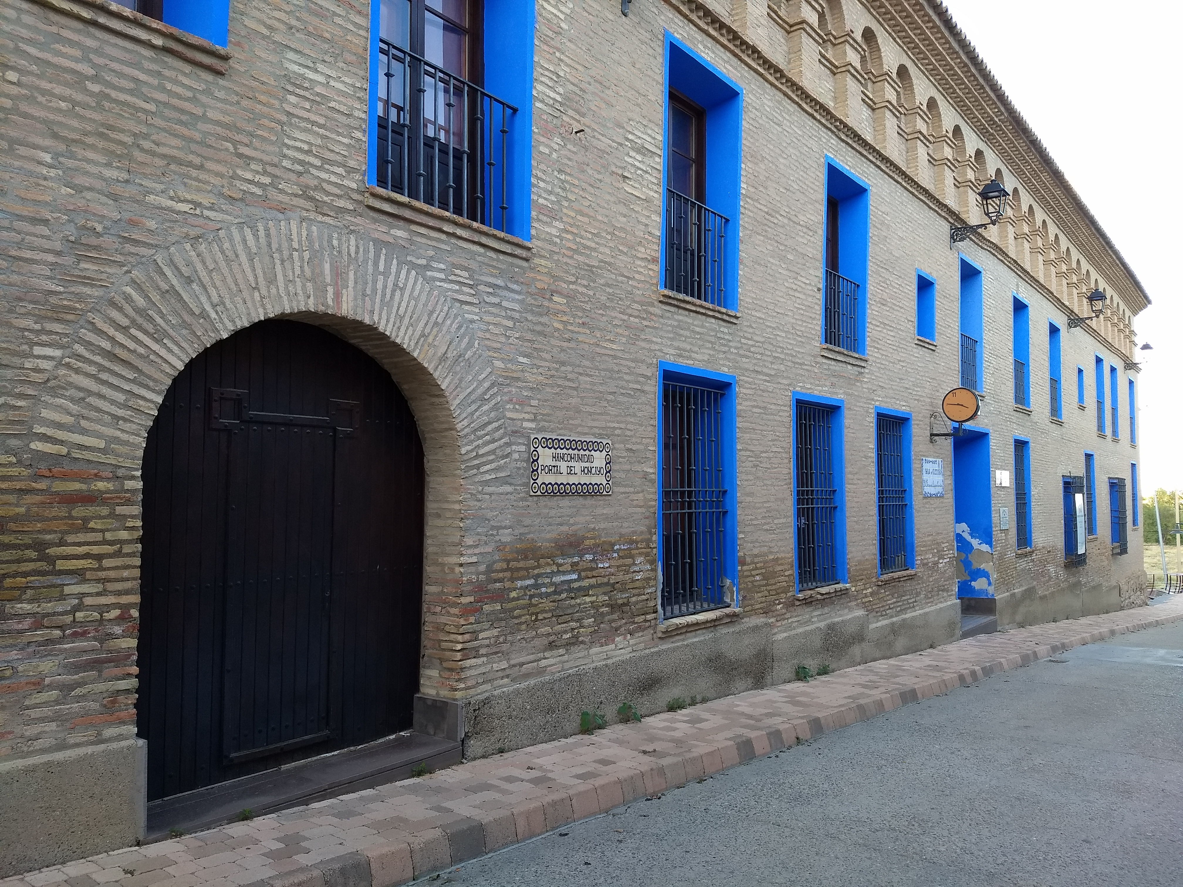 Town hall in Magallon (Aragon) between 1986 and 2010.